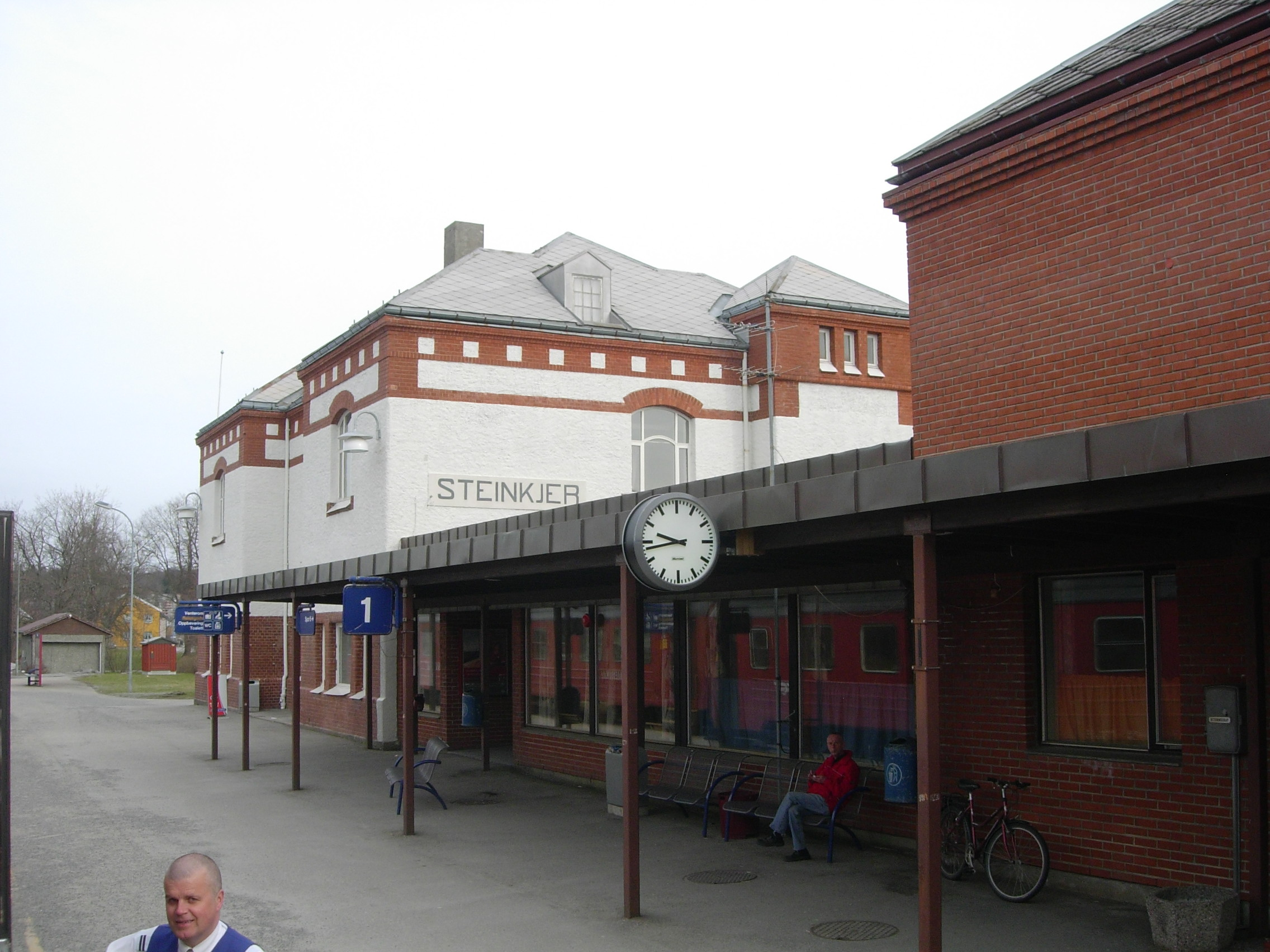 Steinkjer station on Nordlandsbanen, Norway